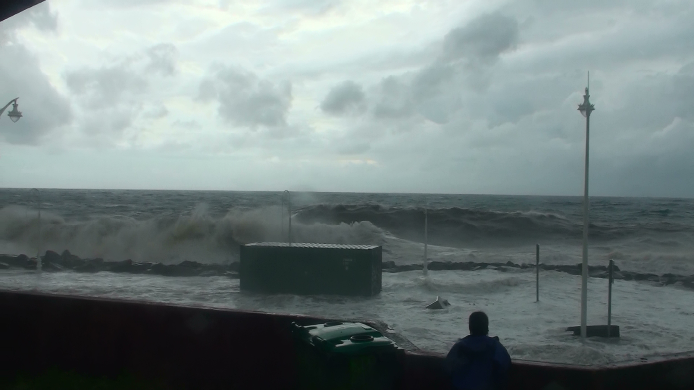 Hurricane Omar's (2008) waves in Guadeloupe